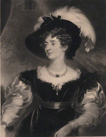 Her Grace The Duchess of Northumberland in 1845.